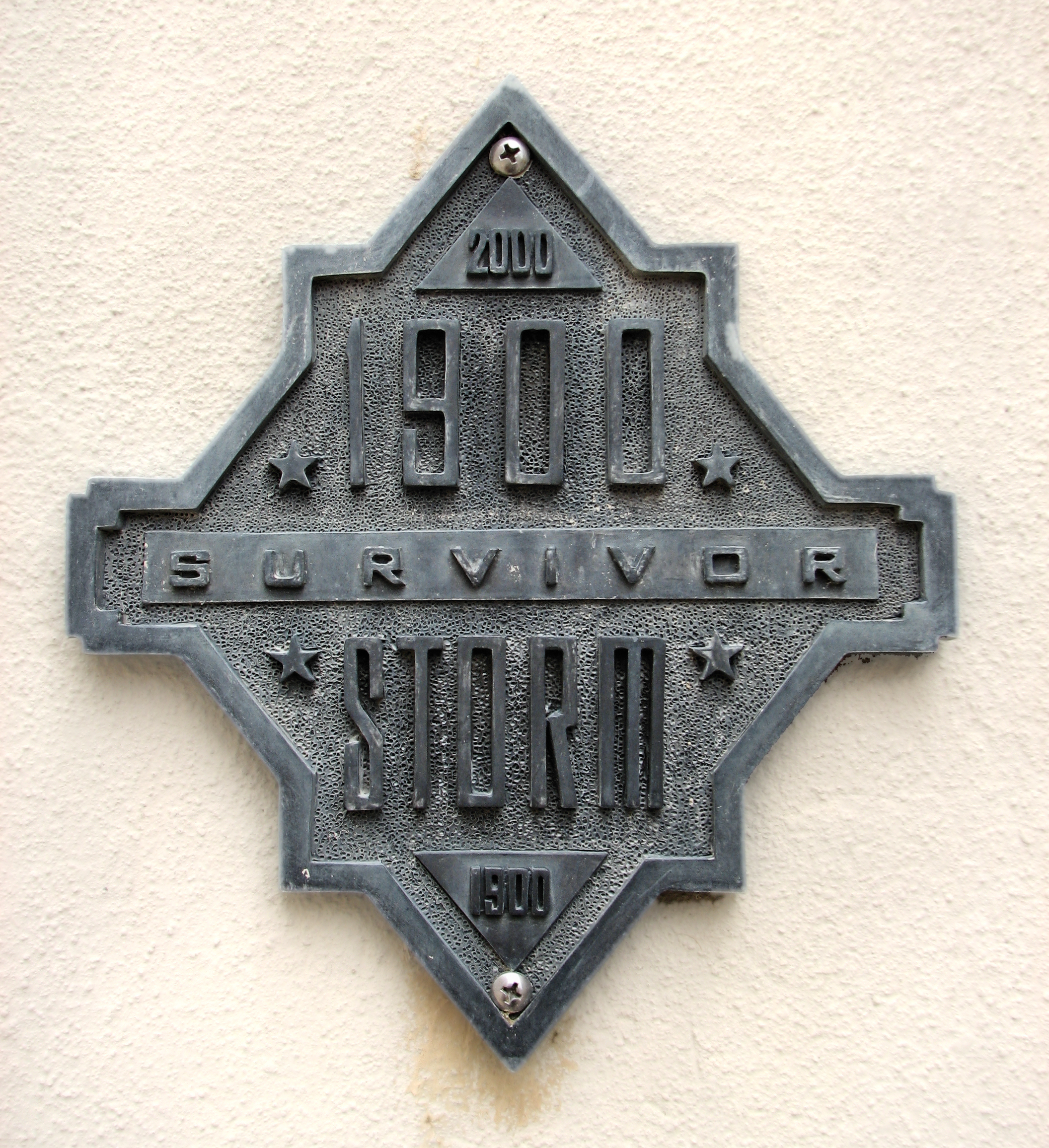 Photo of the 1900 Storm Marker affixed to St. Mary's Cathedral Basilica in Galveston, Texas. The marker is affixed to buildings that survived the Great Galveston Hurricane of 1900.